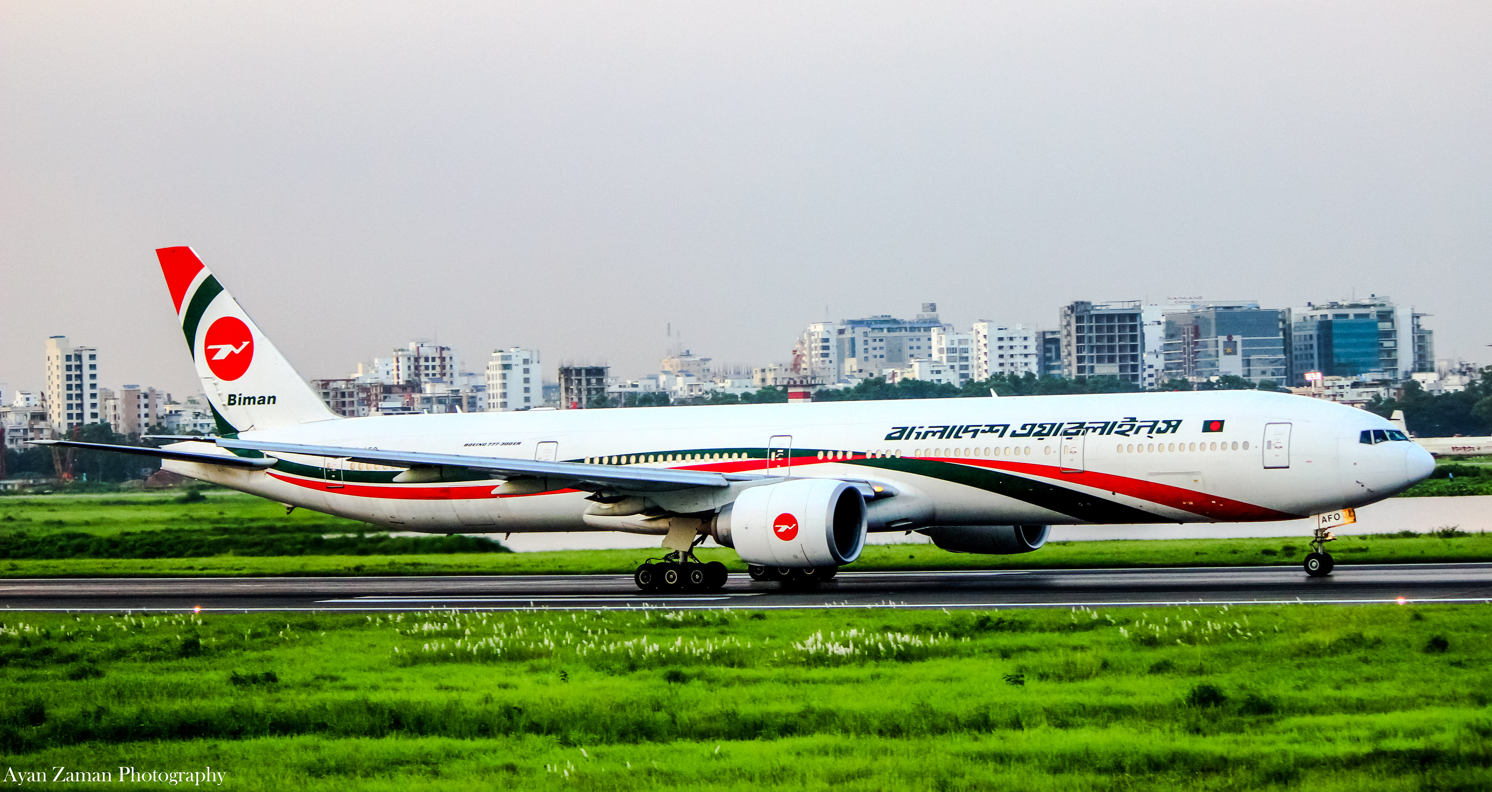 S2-AFO - Boeing 777-3E9(ER) - Biman Bangladesh Airlines .